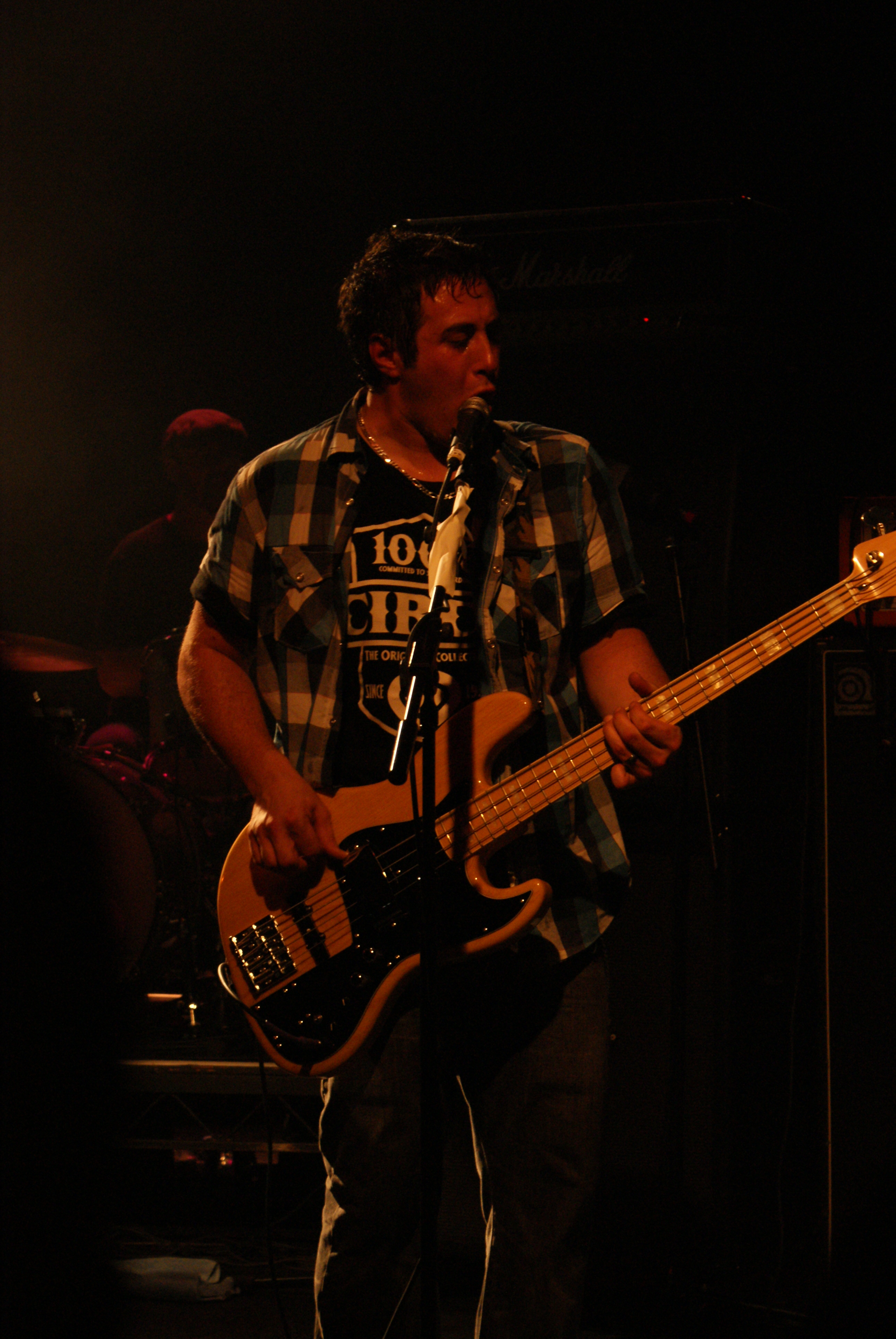 Matt Deis performing with CKY in Colchester, England on July 9, 2009.